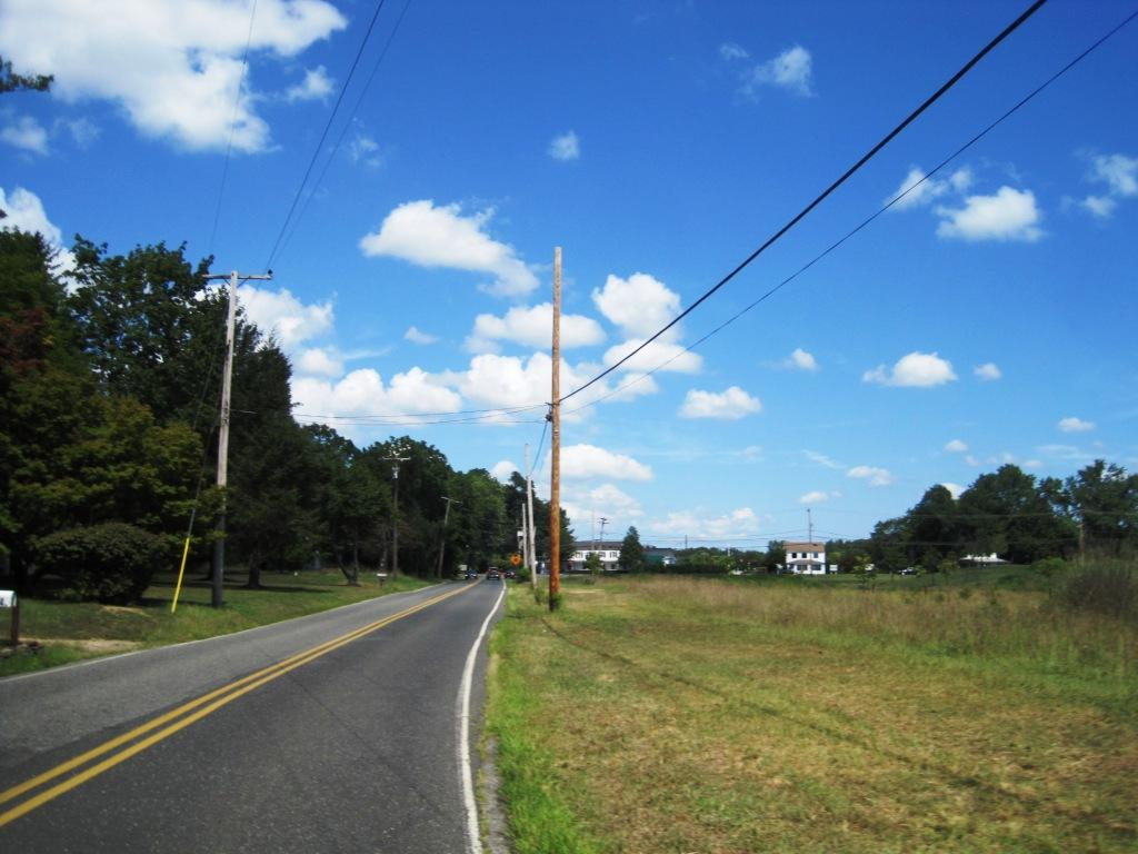 Photo of Fairfield, New Jersey, an unincorporated community within Howell Township, Monmouth County. Photo taken along northbound Ketchum Road approaching County Route 524.